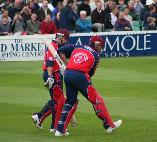 Opening batsman of Somerset CCC walk out to meet Gloucestershire CCC, June 27 2007. The two players are Matthew Wood and Marcus Trescothick